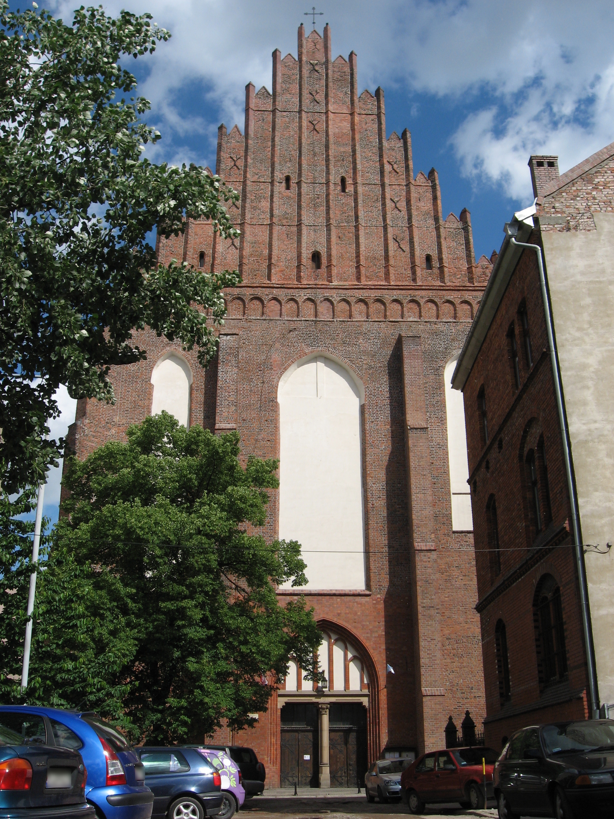 Gothic Saint Stanislaus', Dorothea's and Wenceslaus' Church in Wrocław.